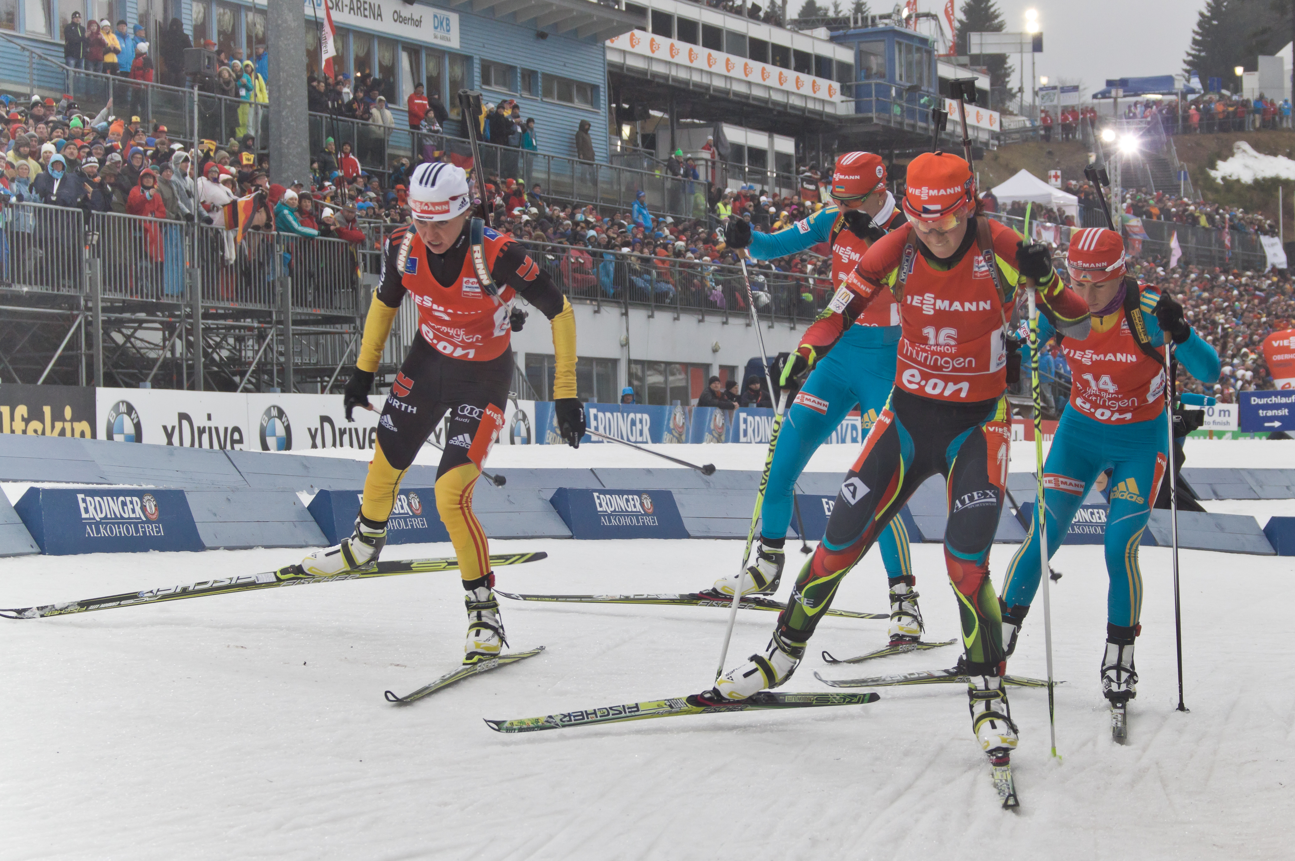 Biathletes Andrea Henkel (bib 3), Veronika Vitkova (bib 16), Valj Semerenko (bib 14) and Olena Pidhrushna (bib 21) in the world cup pursuit race in Oberhof.